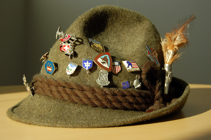 Chris Benham's Tyrolean Hat